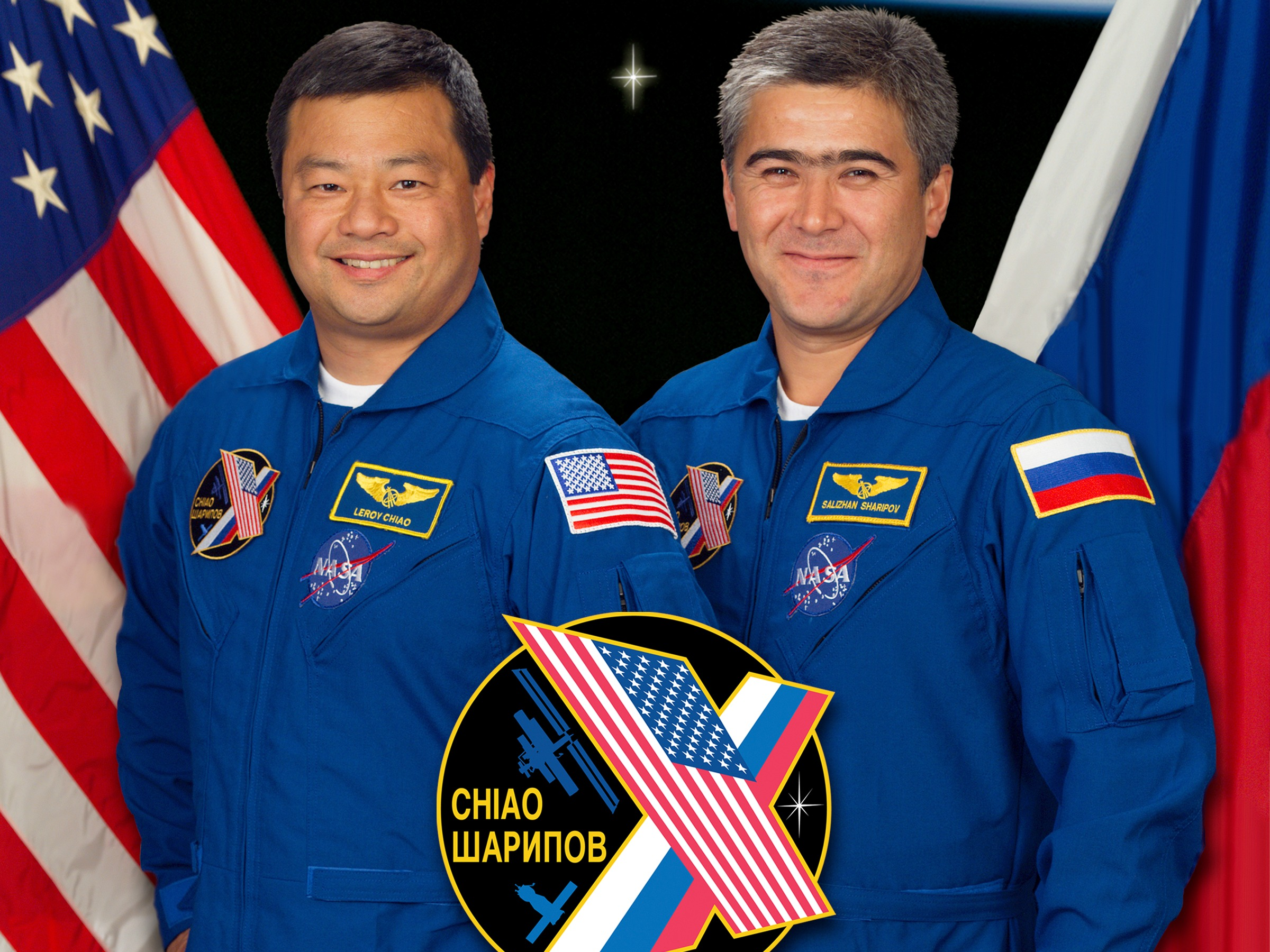 The crewmembers for Expedition 10 take a break from training in the United States, Russia and other venues to pose for their crew portrait. Astronaut Leroy Chiao, left, is commander and NASA ISS science officer. Cosmonaut Salizhan S. Sharipov, representing Russia’s Federal Space Agency, is flight engineer.